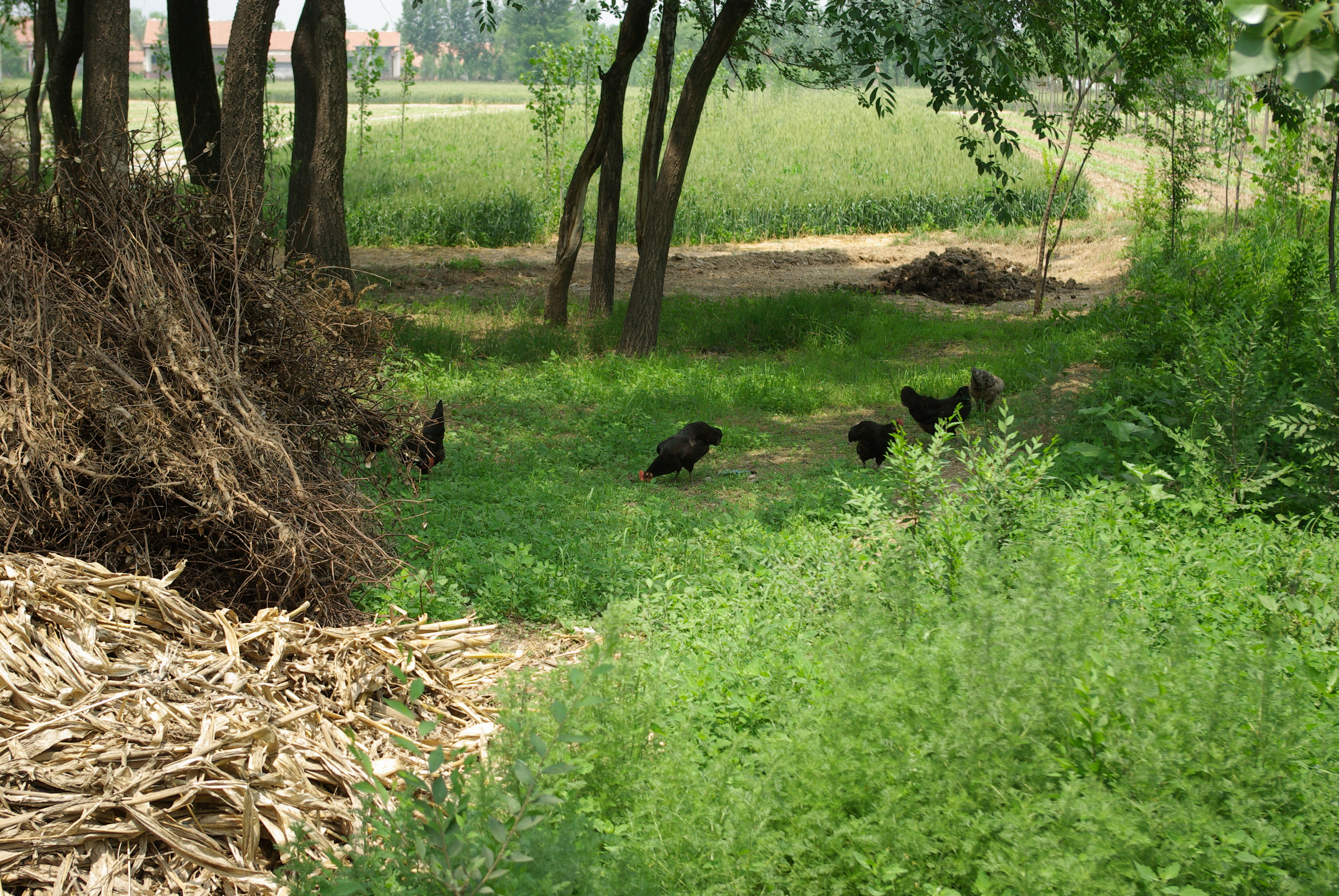 The village around qing tian town